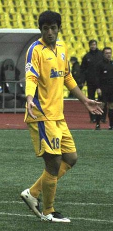 Gia Grigalava as a player of FC Rostov